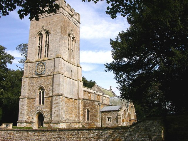 St Michael's parish church, Haselbech, Northamptonshire: view from the southwest, showing the Perpendicular Gothic west tower